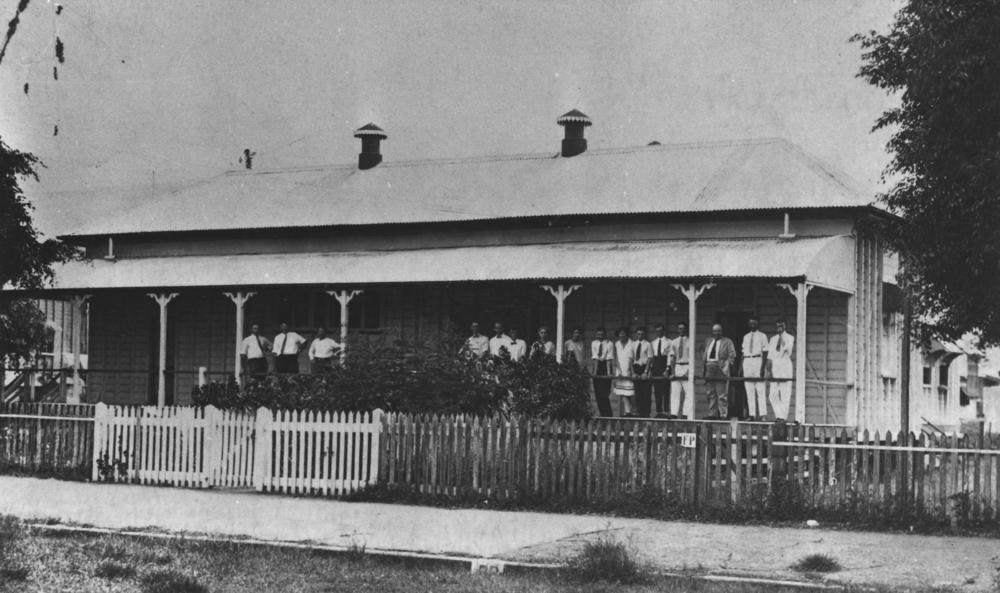 Cairns Town Council Chambers, ca. 1929 The Cairns Town Council Chambers were erected in 1886. The building faces Aplin Street. (Description supplied with photograph.).